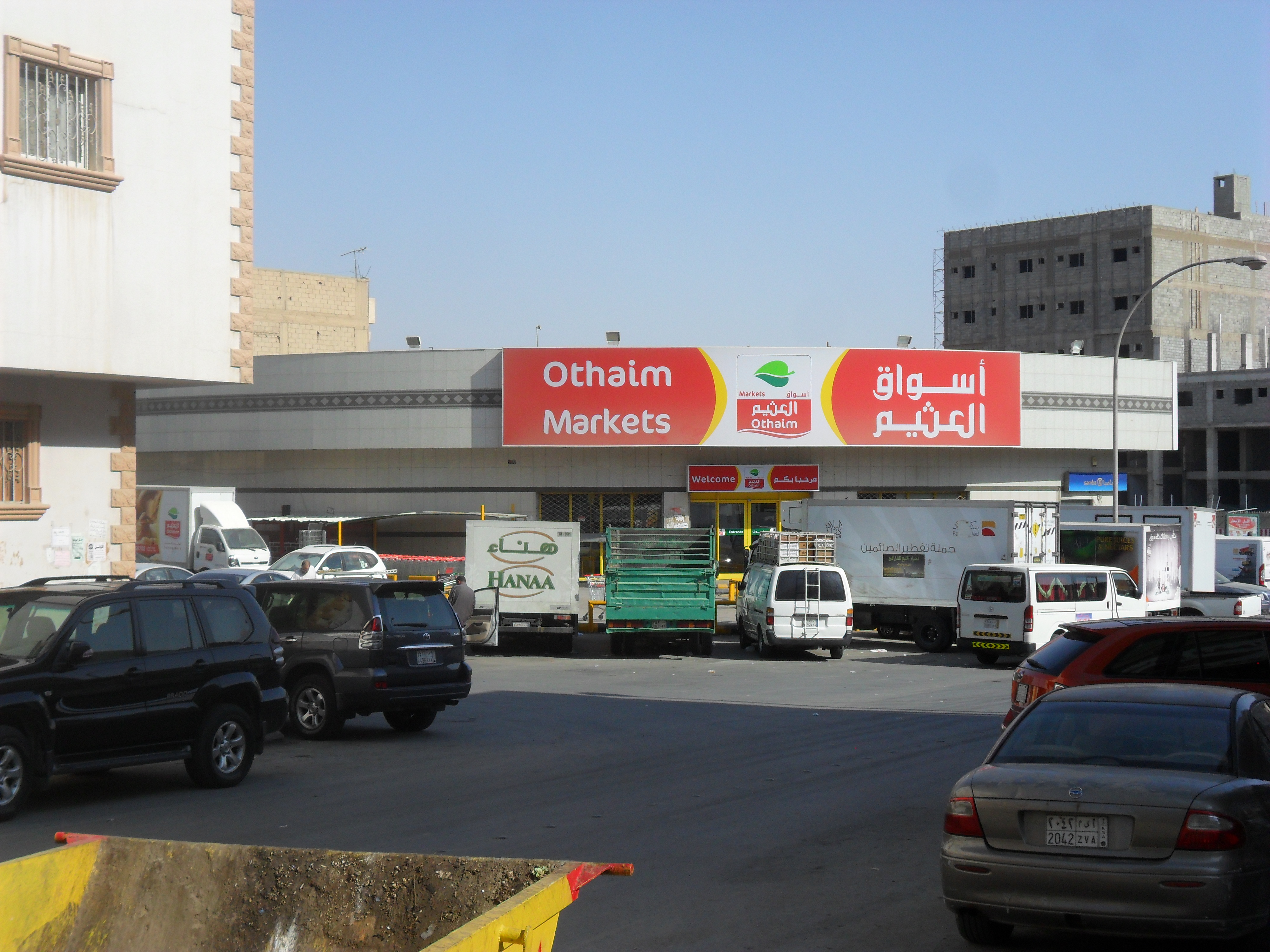 Othaim Markits in Manfuha from South Riyadh, Saudi Arabia